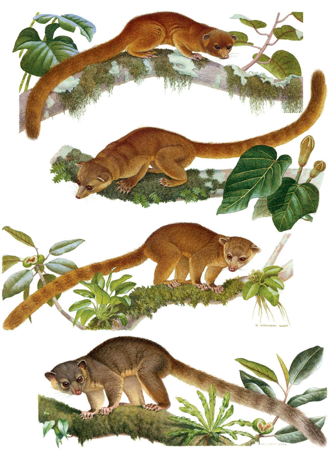 Figure 3. Illustrations of the species of Bassaricyon. From top to bottom, Bassaricyon neblina sp. n. (Bassaricyon neblina ruber subsp. n. of the western slopes of the Western Andes of Colombia), Bassaricyon medius (Bassaricyon medius orinomus of eastern Panama), Bassaricyon alleni (Peru), and Bassaricyon gabbii (Costa Rica, showing relative tail length longer than average). Artwork by Nancy Halliday.